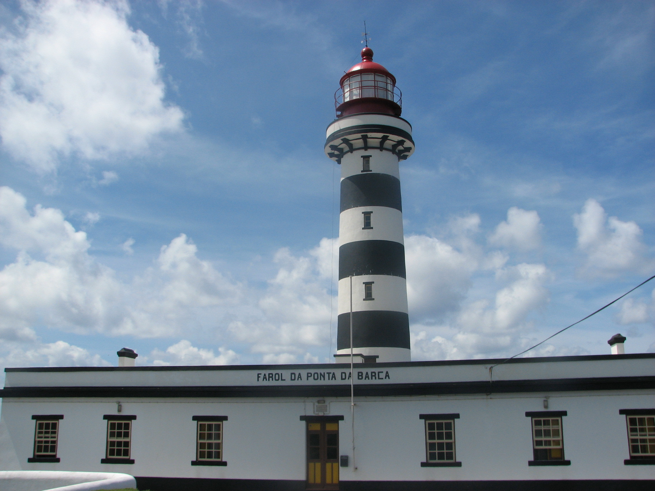 The lighthouse at Ponta da Barca, Graciosa, Azores.